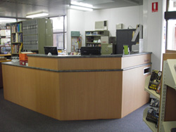 Photo of circulation desk area at Birchip Community Library